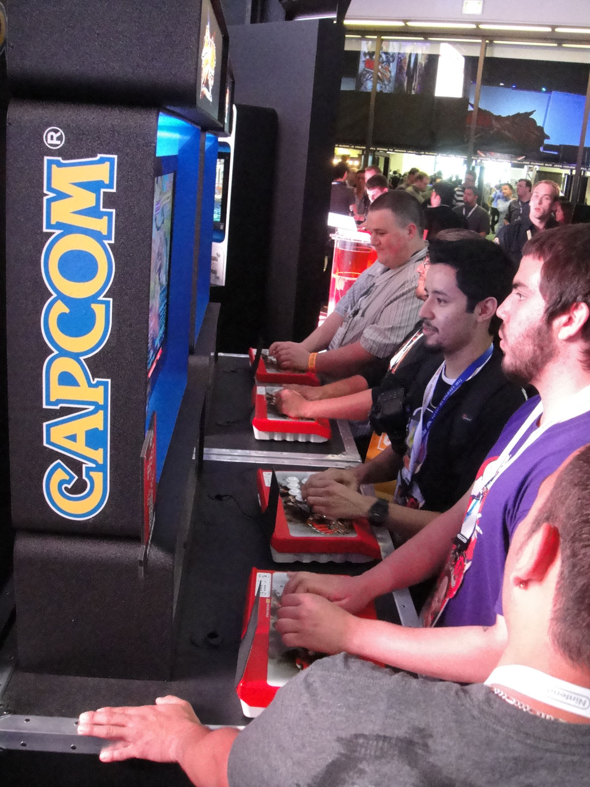 photo 2011 taken by Doug Kline If you're interested in higher resolution versions of my images, contact me via my profile page.